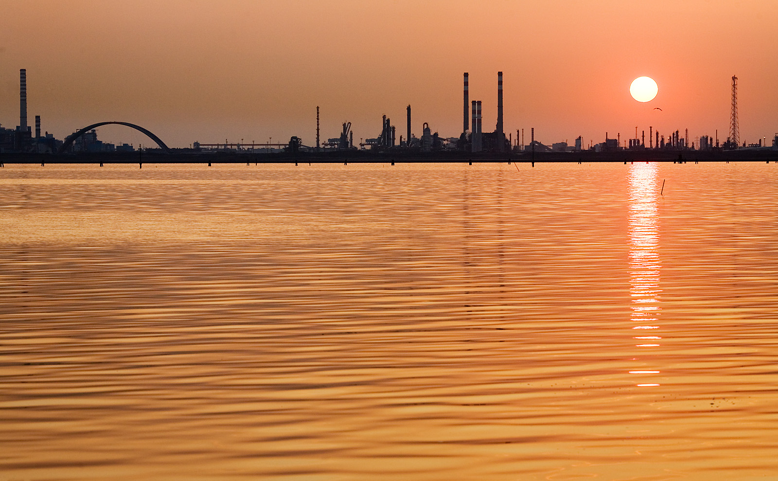 Sunset in Mestre, Italy